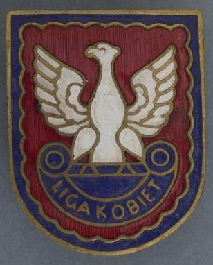 Badge of the participant of the First Congress of the Women's League of Galicia and Silesia (1915 in Kraków)